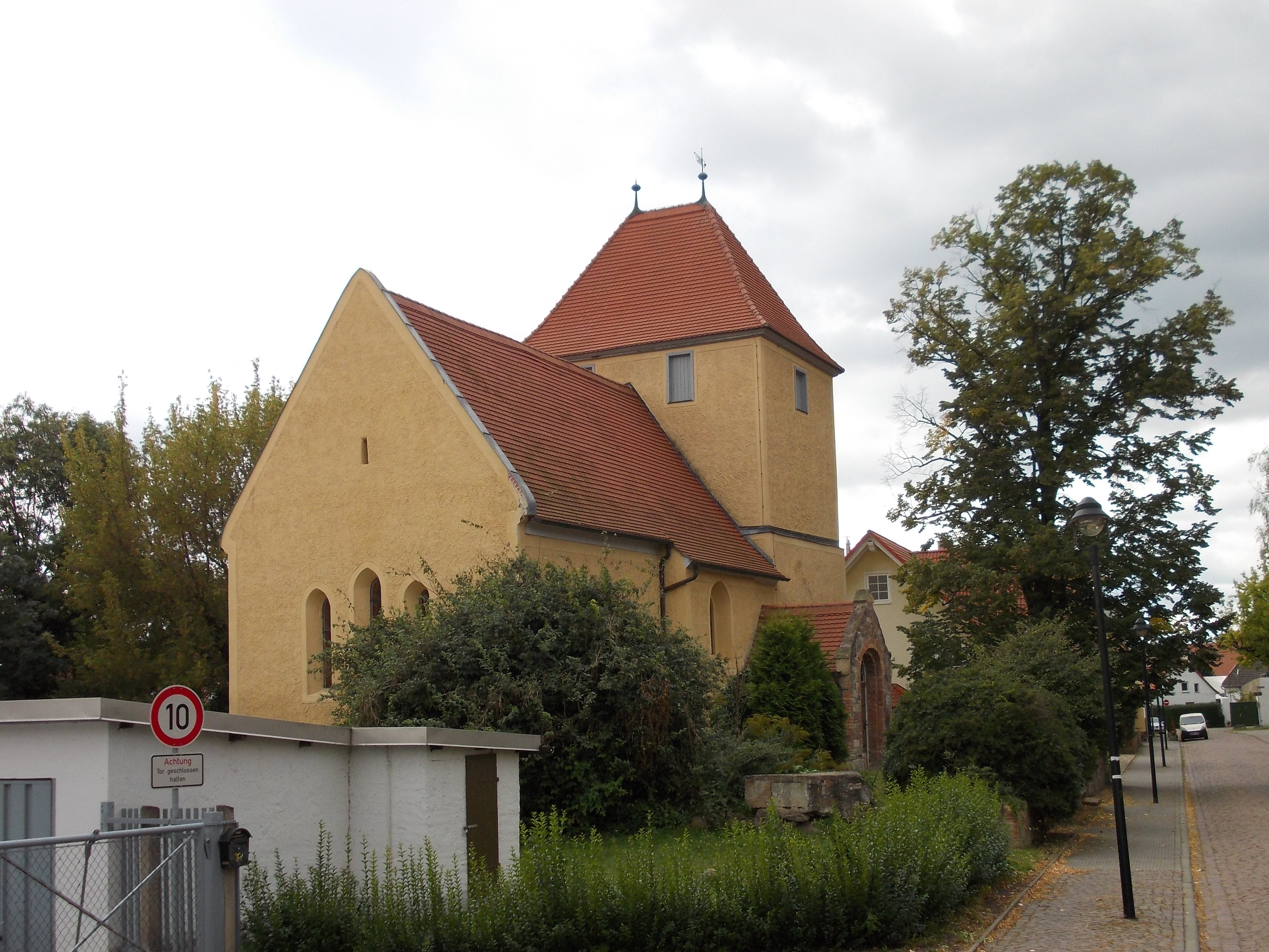 St. Lawrence Church in Seeben (Halle/Saale, Saxony-Anhalt)